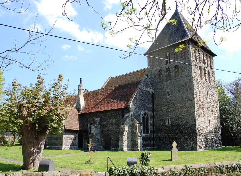 St Mary's parish church, Corringham, Essex, seen from the northwest